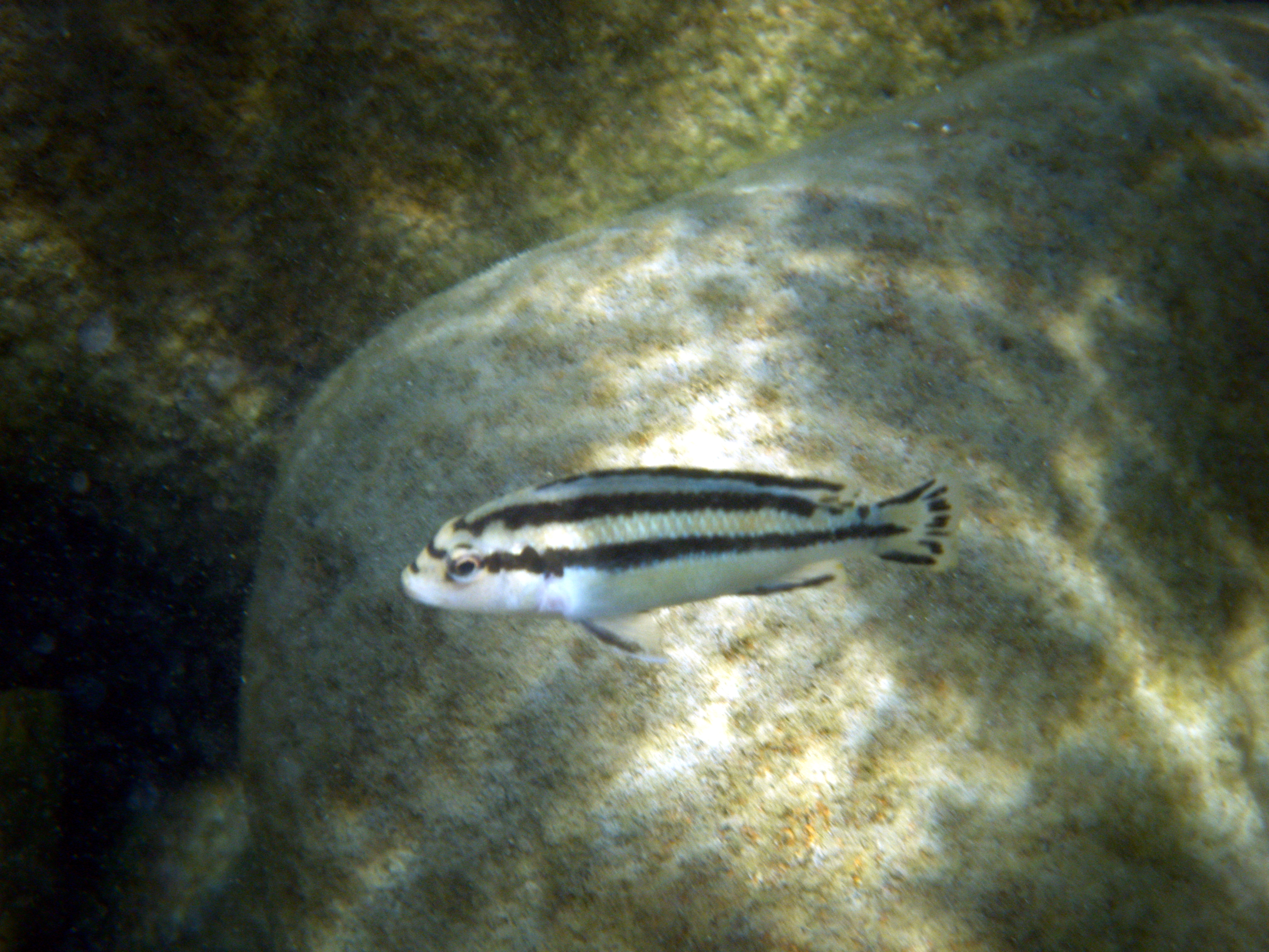 Location: Likoma Island